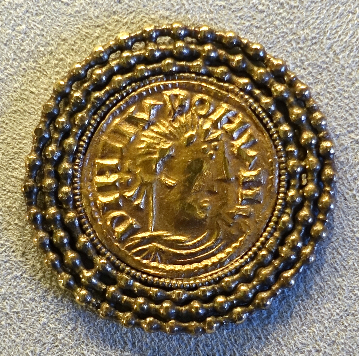 Exhibit in the Bode-Museum, Berlin, Germany. This work is in the public domain because the artist died more than 100 years ago.